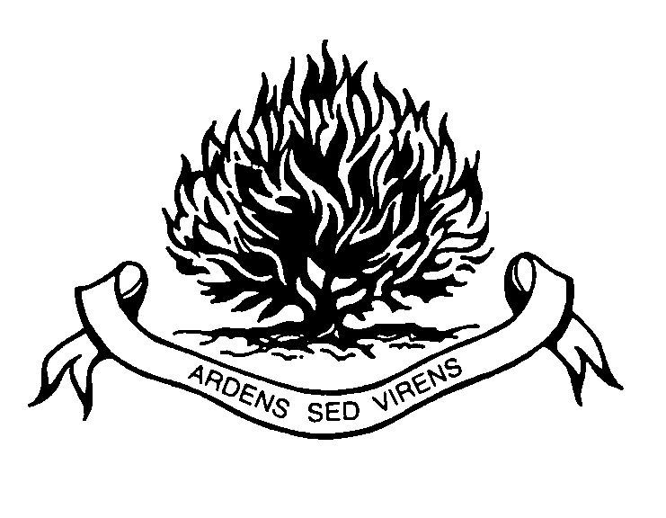 Old logo of the Presbyterian Church in Ireland